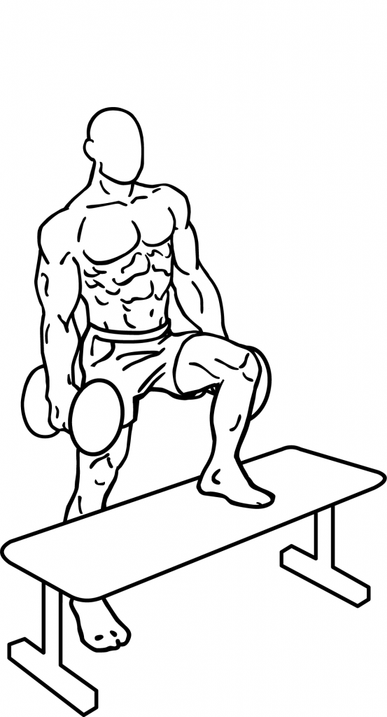 an exercise of hip and thigh